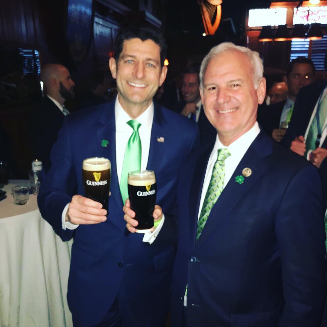 Getting in the St. Patrick’s Day Spirit with @SpeakerRyan ☘️